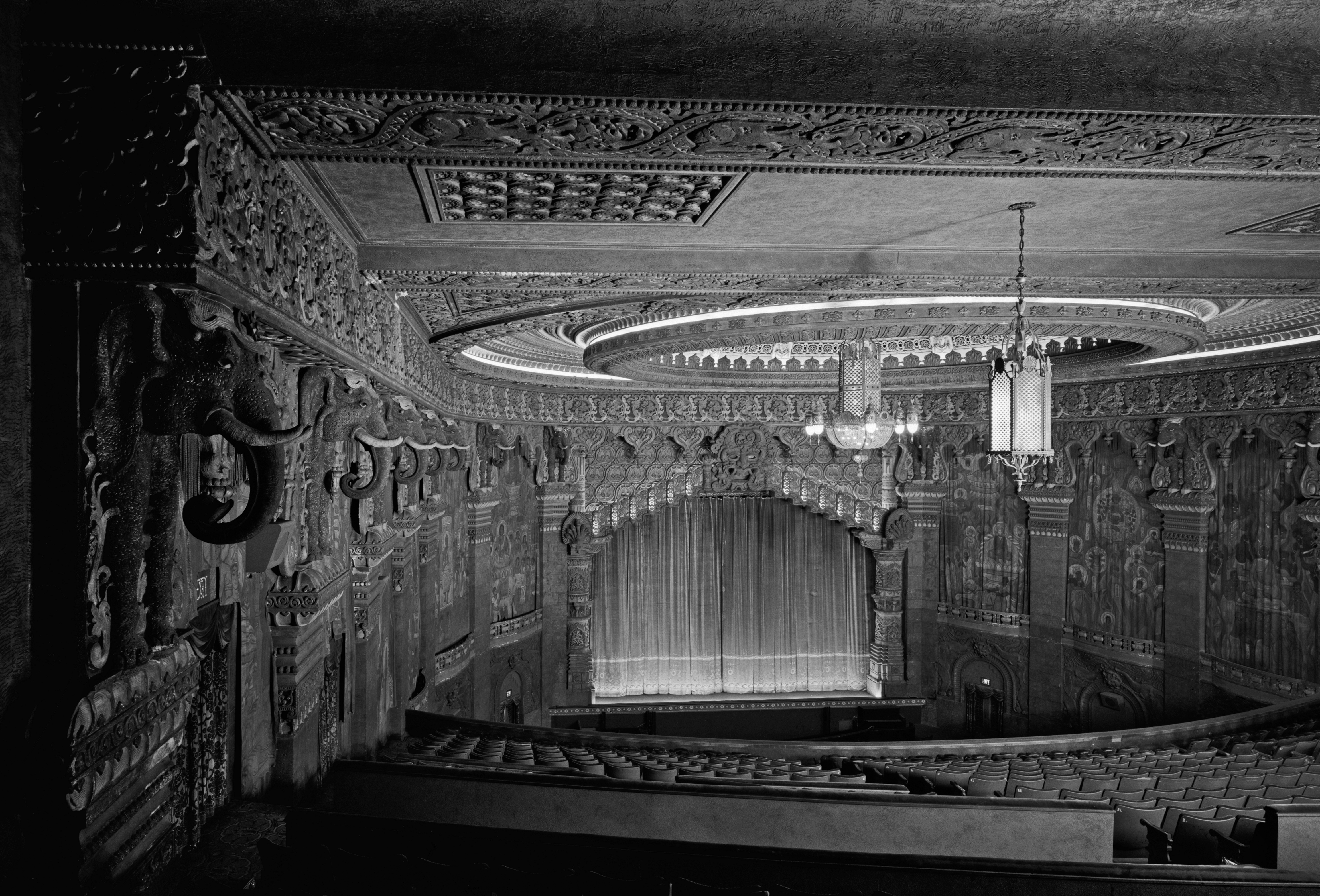 Oriental Theatre cinema interior. A movie palace-cinema formerly in Portland, Oregon — built in 1927 and demolished in 1970. 1969 photograph from the HABS—Historic American Buildings Survey images of Oregon. Credits File caption: 16. Historic American Buildings Survey, Lyle E. Winkle, Photographer November 11, 1969 AUDITORIUM FROM BALCONY. HABS ORE,26-PORT,3-16